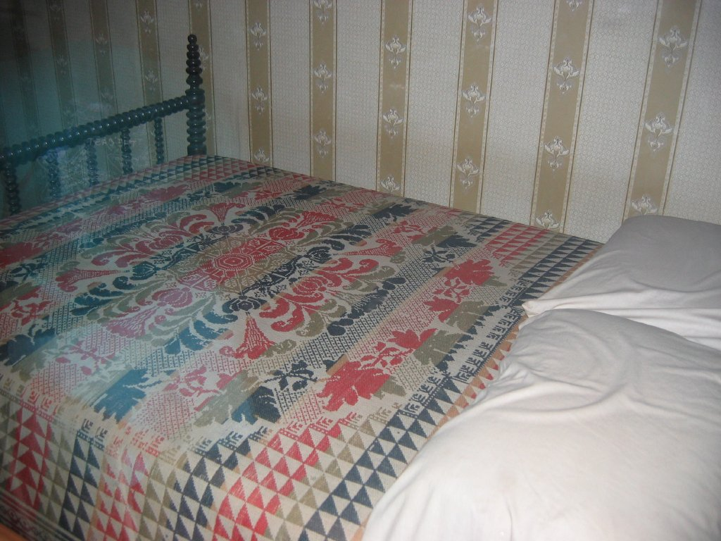 A replica of the bed Abraham Lincoln died upon at Petersen House. The actual bed is property of the Chicago Historical Society. Image released under GFDL with authors permission. Original